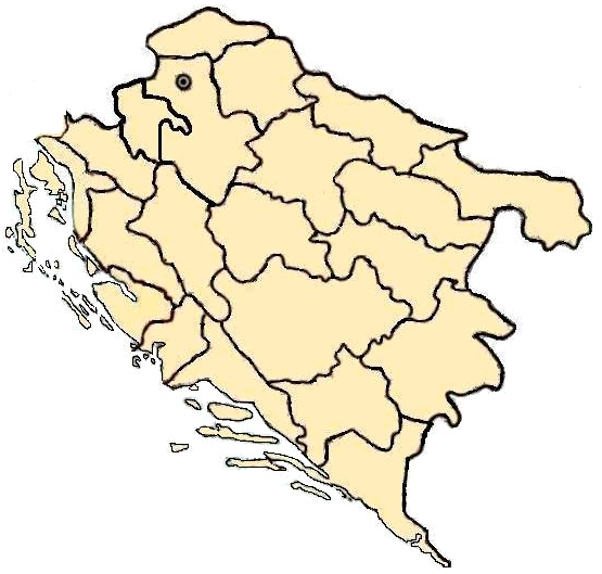 Map of the Counties of the Independent State of Croatia.